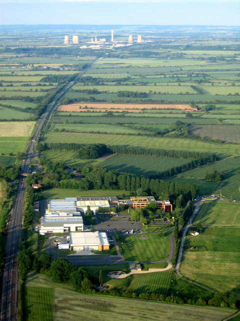 Aerial photograph of part of the Vale of White Horse, showing the Williams F1 works at Grove in the foreground, Didcot Power Station in the distance, and the Great Western Main Line passing them both